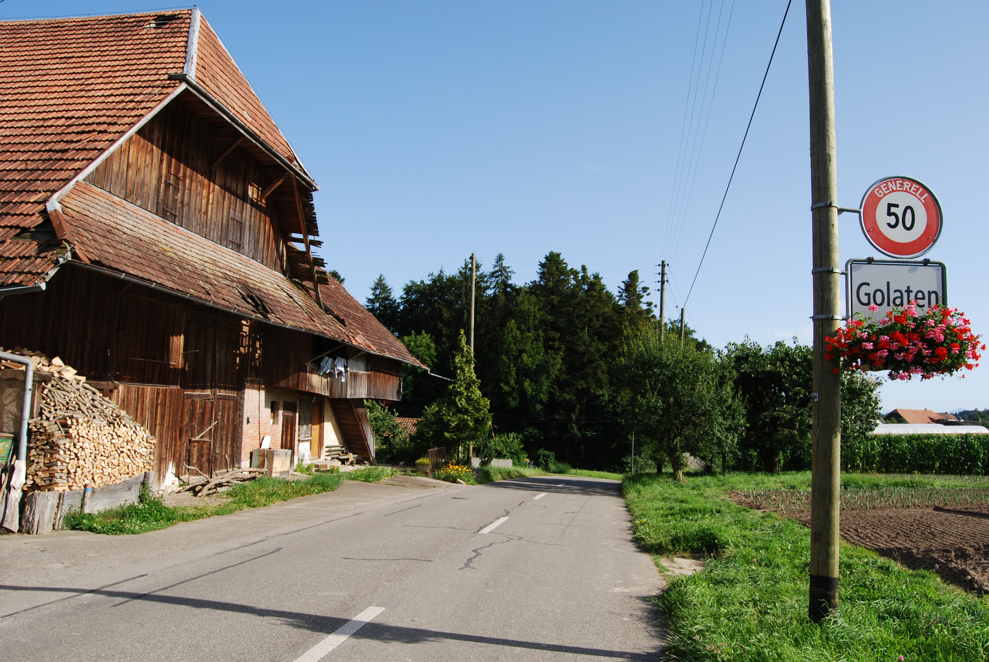 Golaten, canton of Bern, SwitzerlandEsperanto: Golaten, Kantono Berno, Svislando